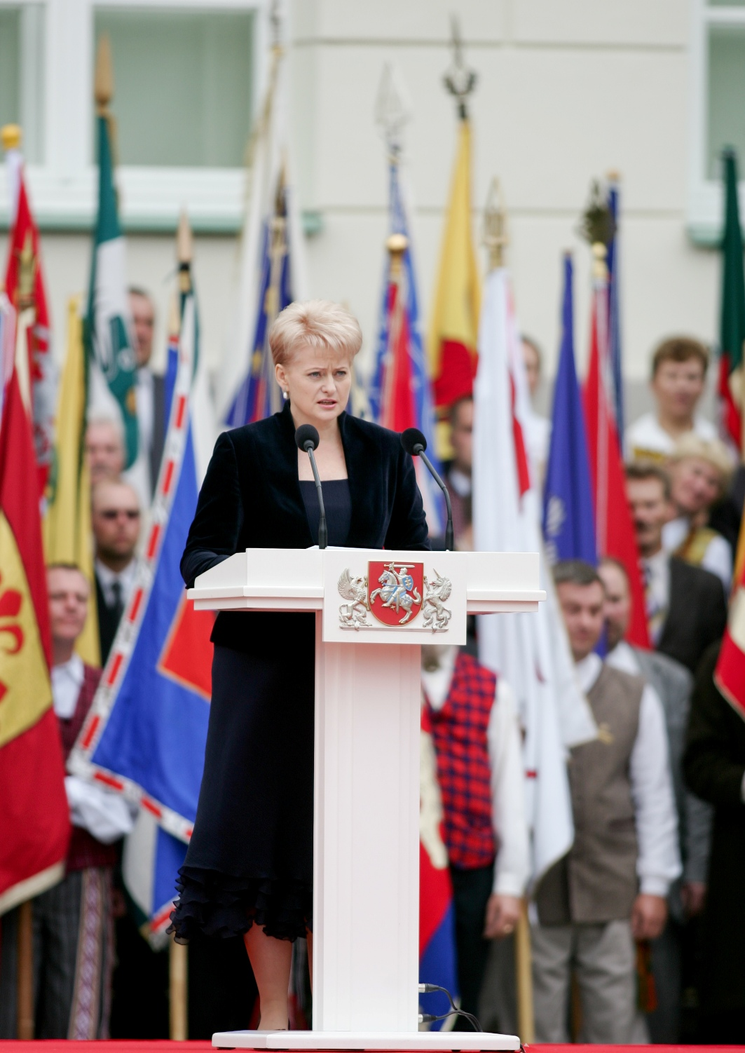 Dalia Grybauskaitė Presidential inauguration, Lithuania, 2009-07-12